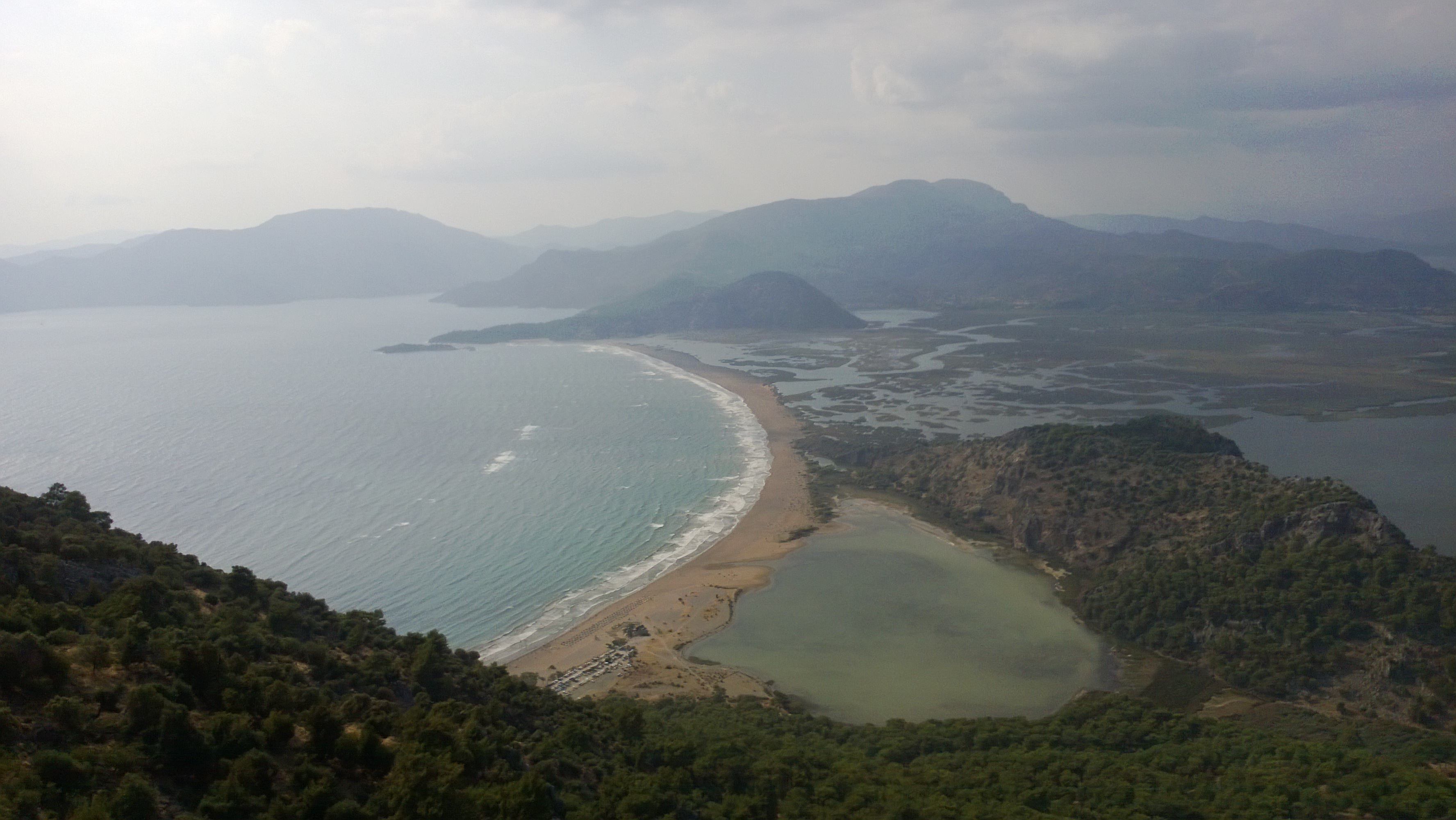 View of the İztuzu Beach in Turkey.